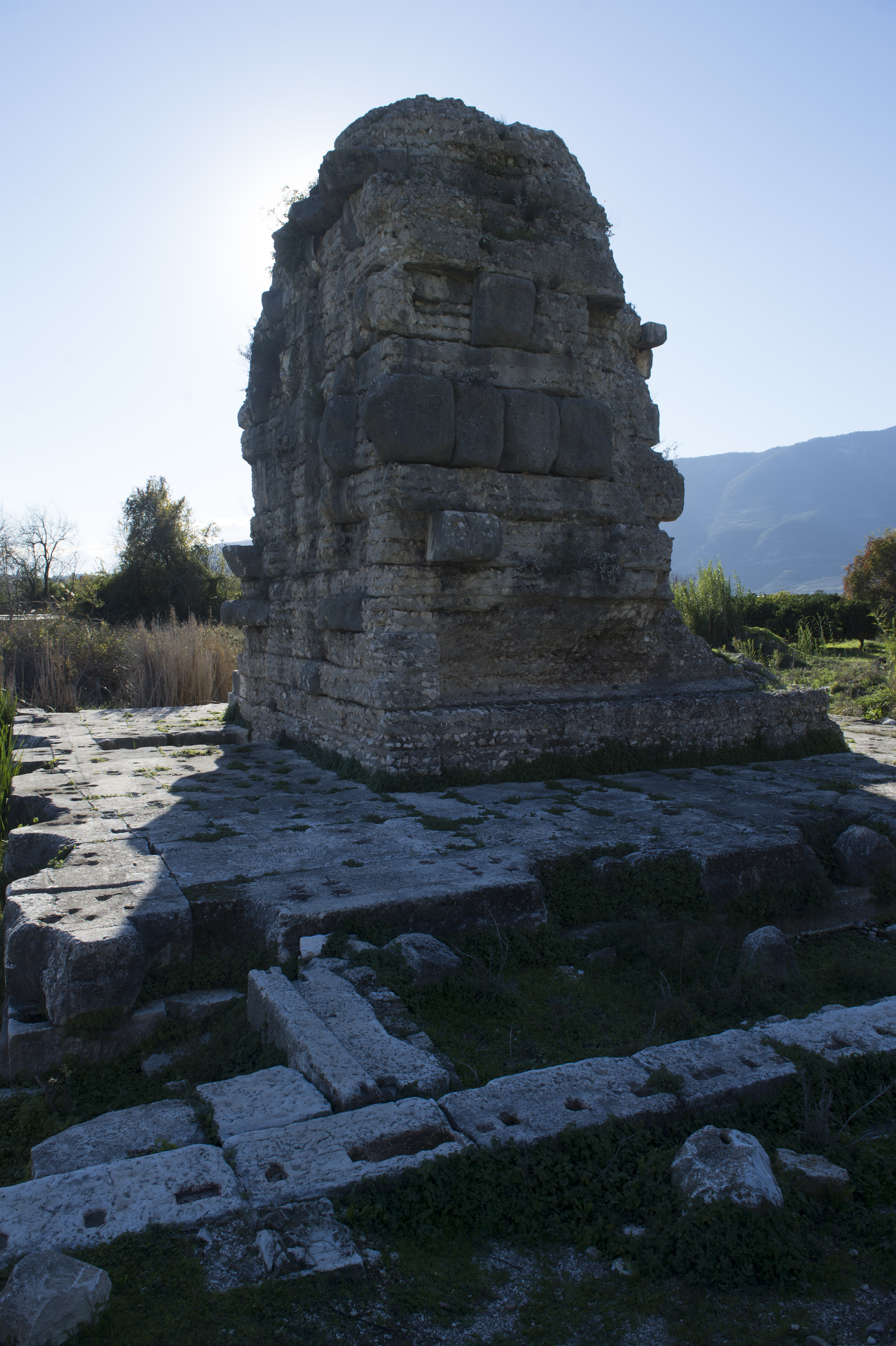 The cenotaph (or what’s left of it, the decoration is now in the Antalya museum) of Gaius Caesar, adopted son of Augustus, who died here in 4 AD from a wound received in Armenia. It was made in Opus Caementum (concrete) technique and covered with marble blocks, parts of which are in the Antalya Museum (see my gallery). The form the monument had is unclear. The Lycian League paid the expenses. The Wikipedia has "The cenotaph of Gaius Caesar. From the Wikipedia: “Gaius Julius Caesar (20 BC – 21 February AD 4), most commonly known as Gaius Caesar or Caius Caesar, was the oldest son of Marcus Vipsanius Agrippa and Julia the Elder. He was born between 14 August and 13 September 20 BC or according to other sources in 23 September 20 BC with the name Gaius Vipsanius Agrippa, but when he was adopted by his maternal grandfather Roman Emperor Augustus, his name was changed to Gaius Julius Caesar.